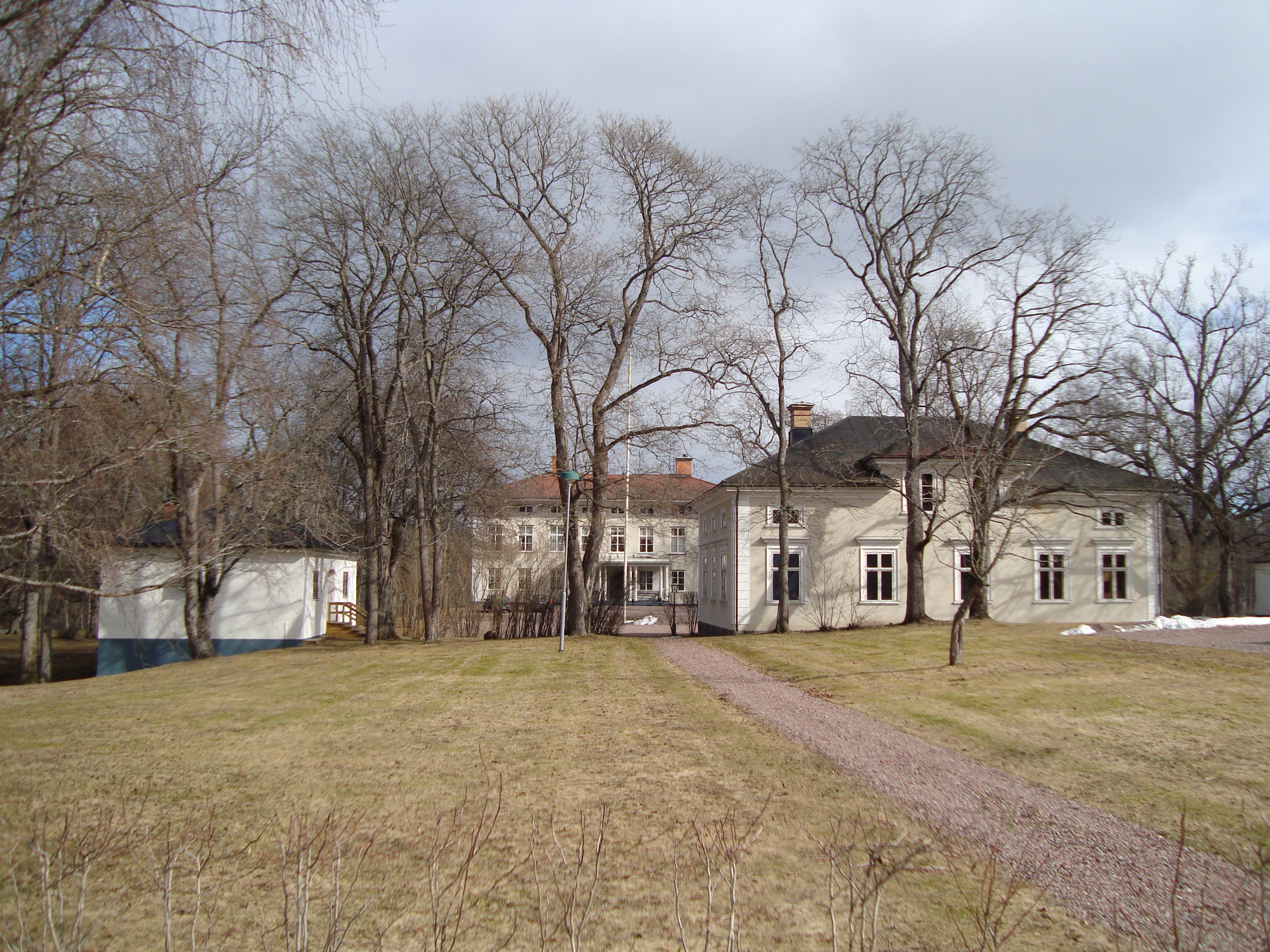 Grycksbo mansion, Falun Municipality, Sweden